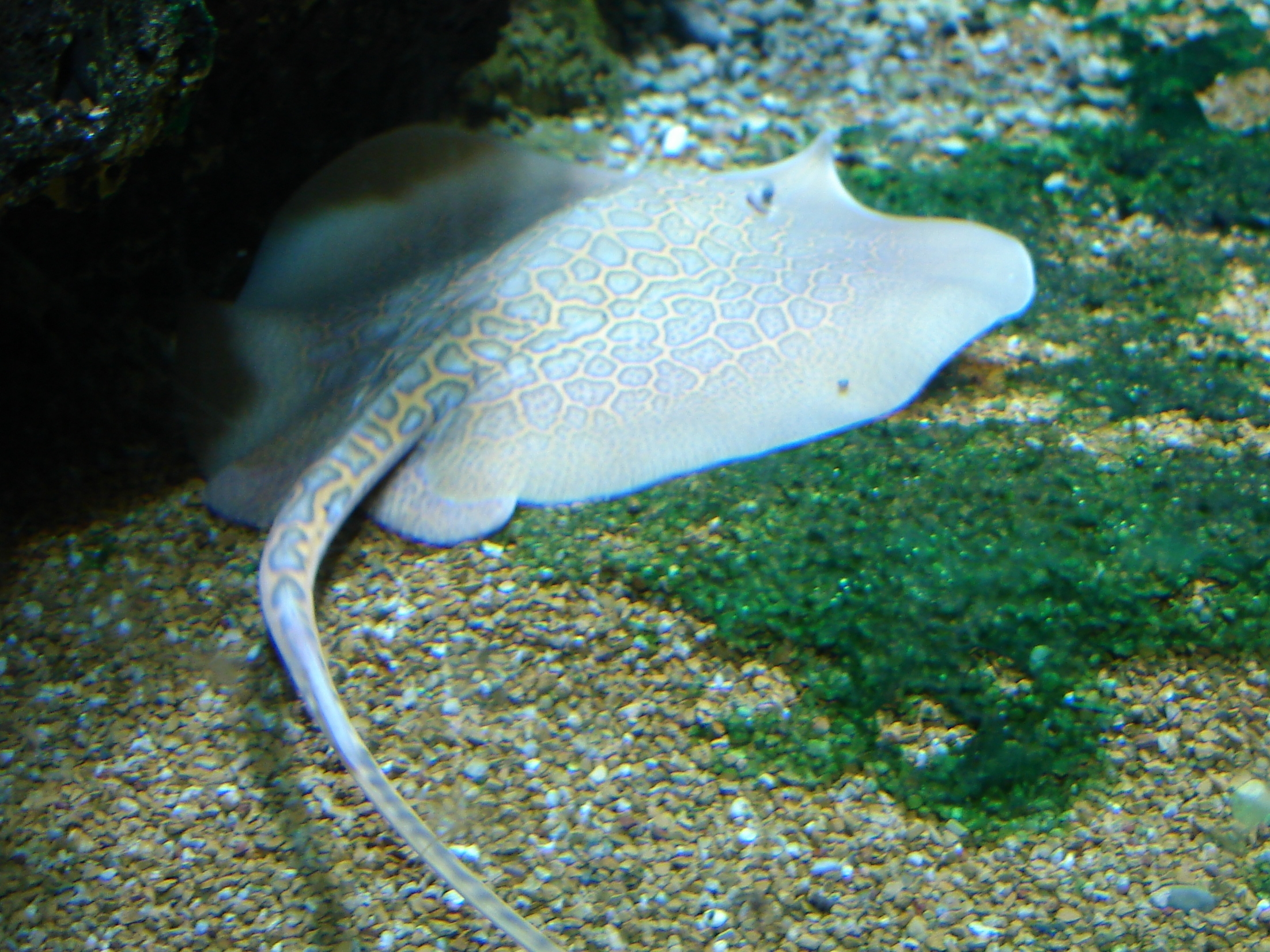 Marbled freshwater stingray (Himantura oxyrhyncha) at the Shedd Aquarium.